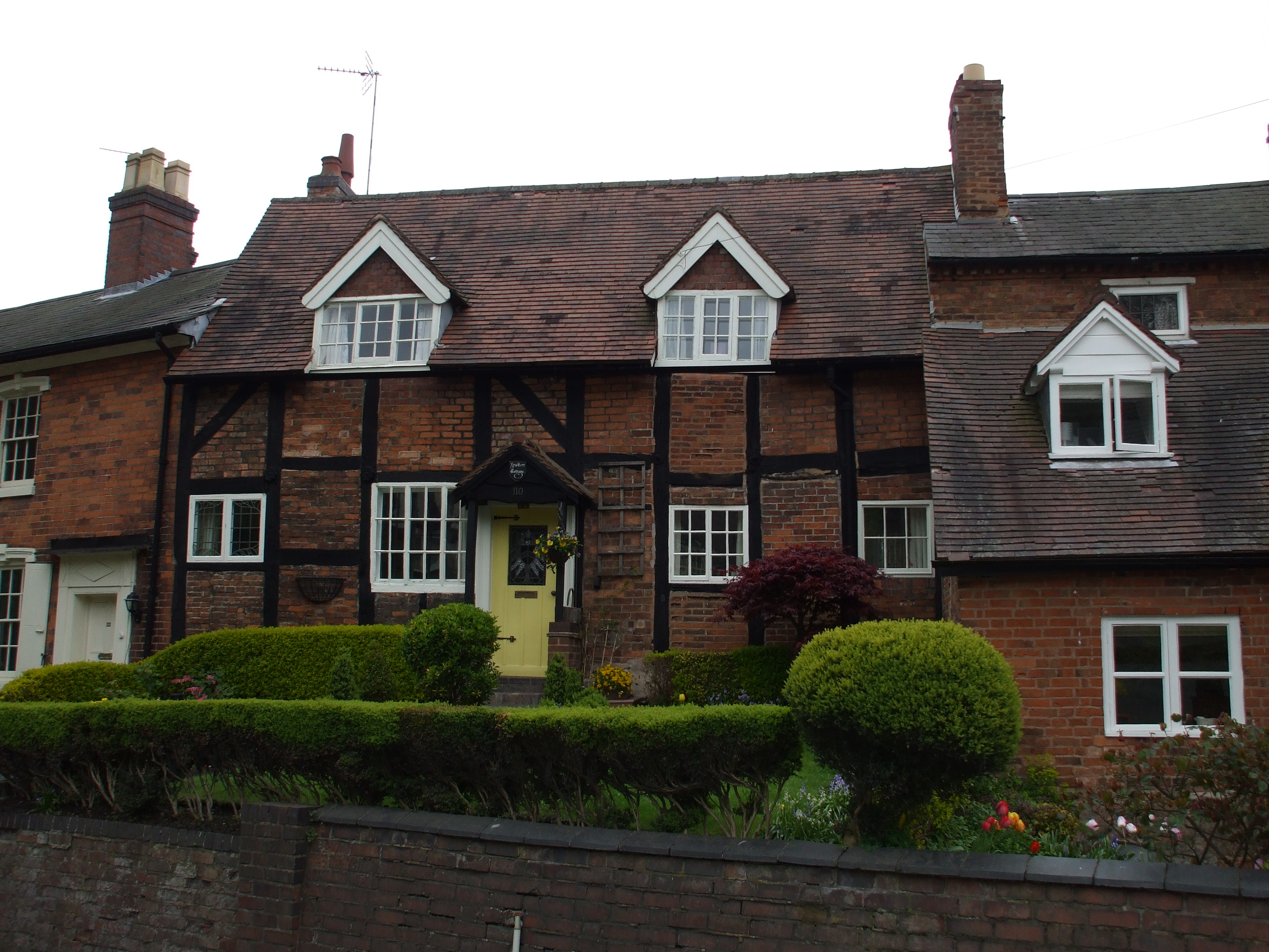 Yew Tree Cottage Hampton in Arden